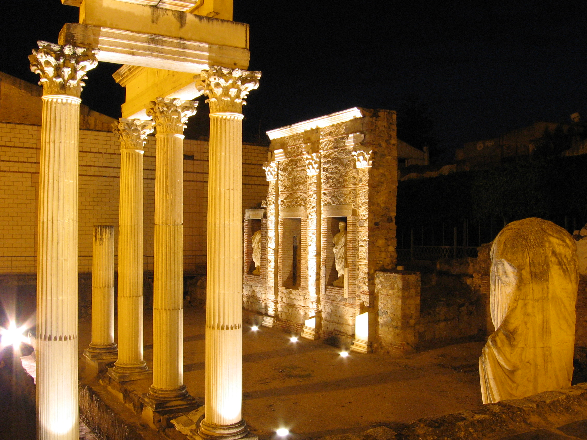 Roman forum Mérida, Extremadura, Spain